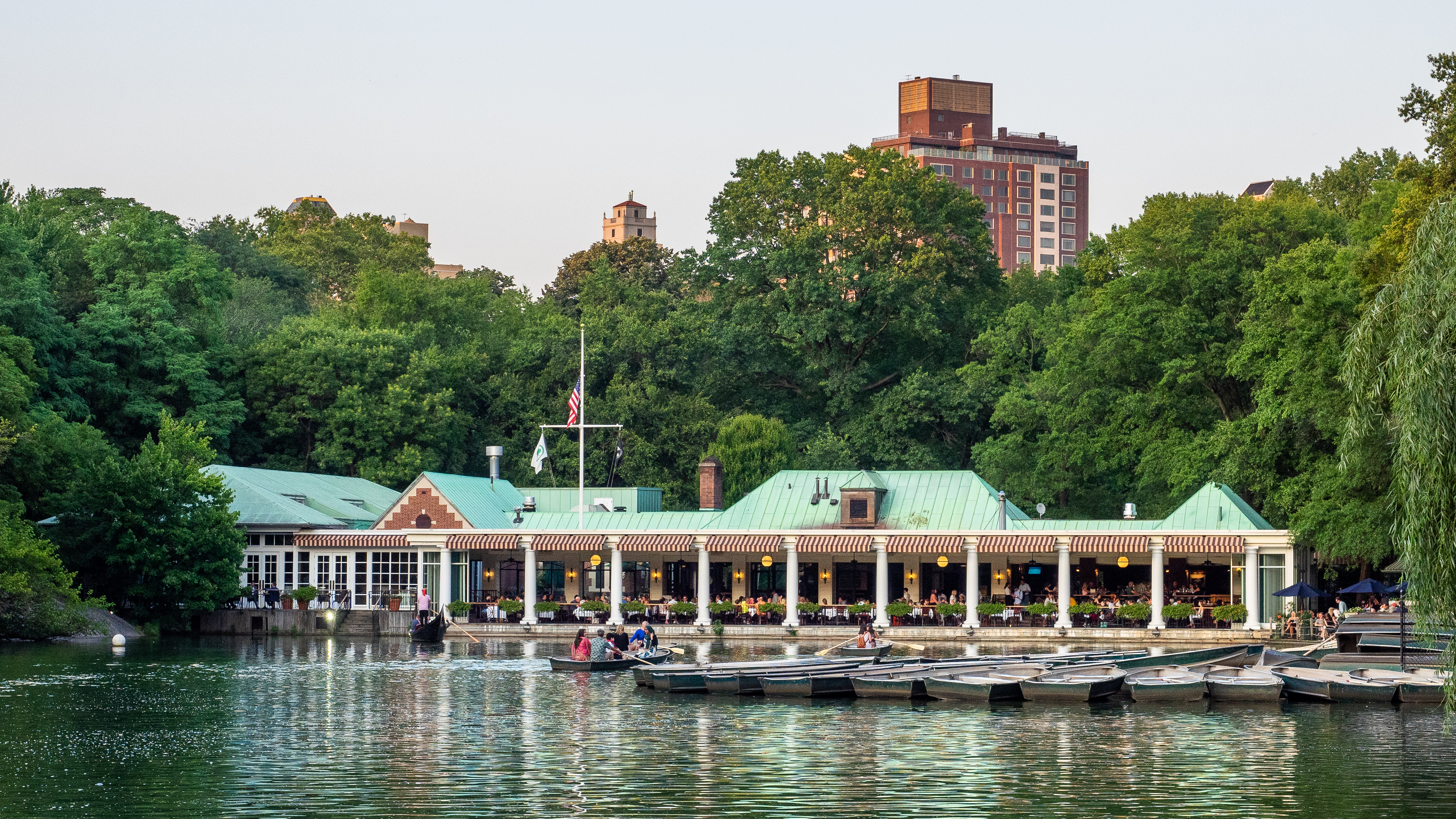 Central Park, Manhattan, New York City